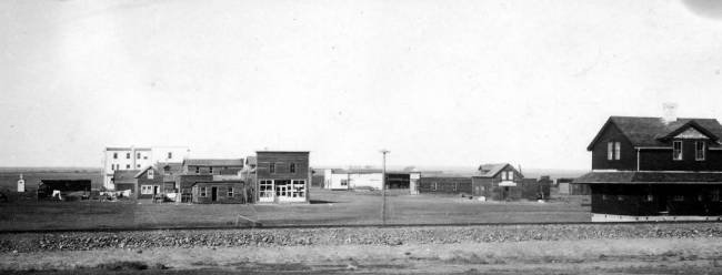 Photographer unknown - 1914 photo from Canada. All Canadian photos from pre-1949 are PD